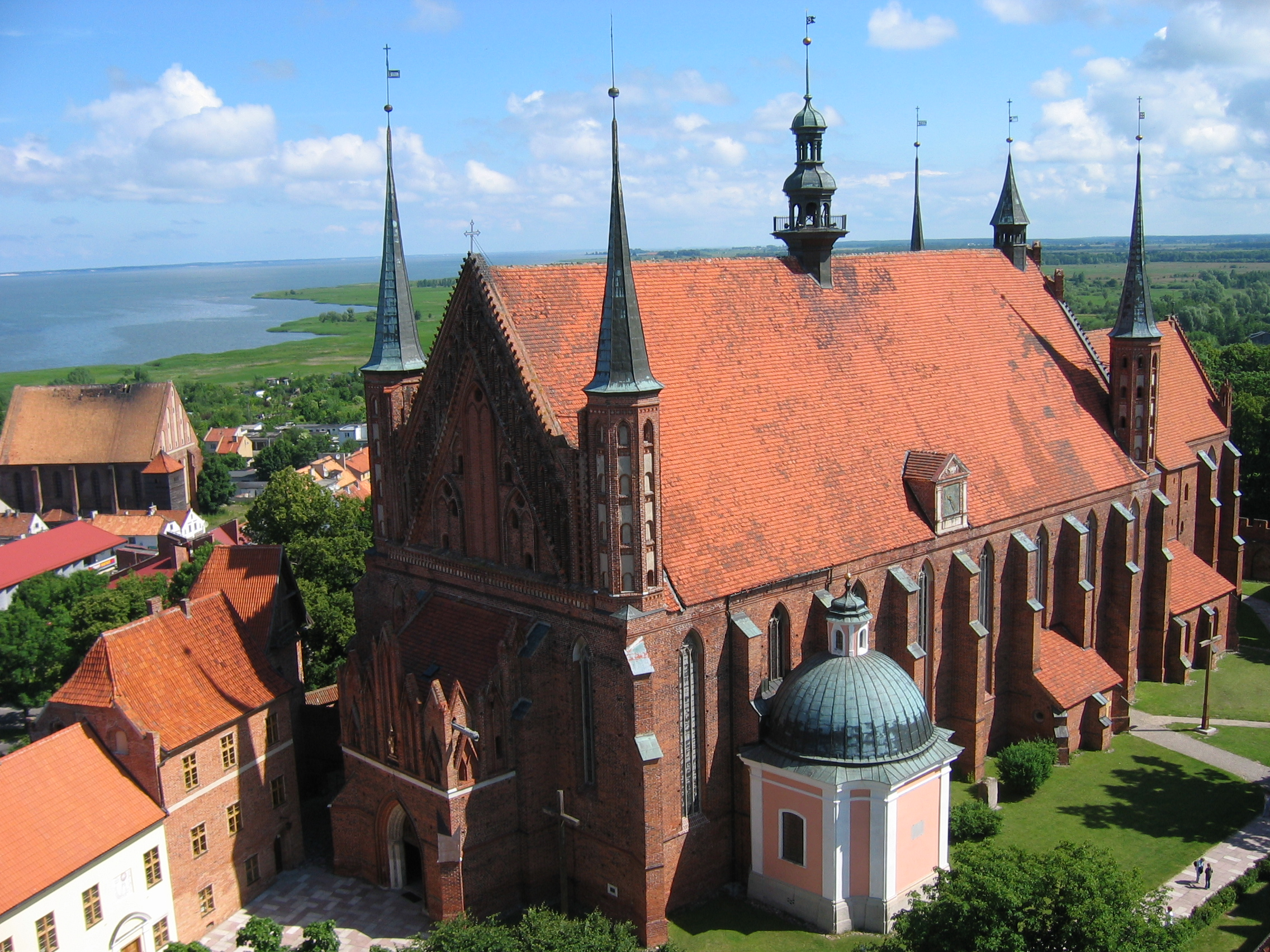 Frombork Cathedral, where Copernicus was buried.